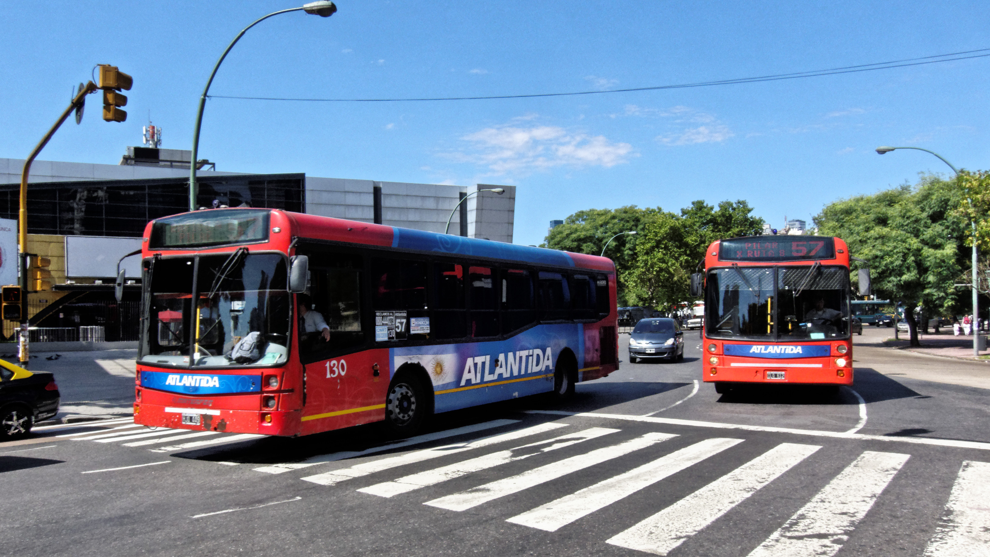 From left to right: Materfer bus (reg. HJQ 449, #130) and Materfer bus (reg. ILQ 612) in Buenos Aires, Argentina. Colectivo, line 57, Transportes Atlántida S.A.C. operator.